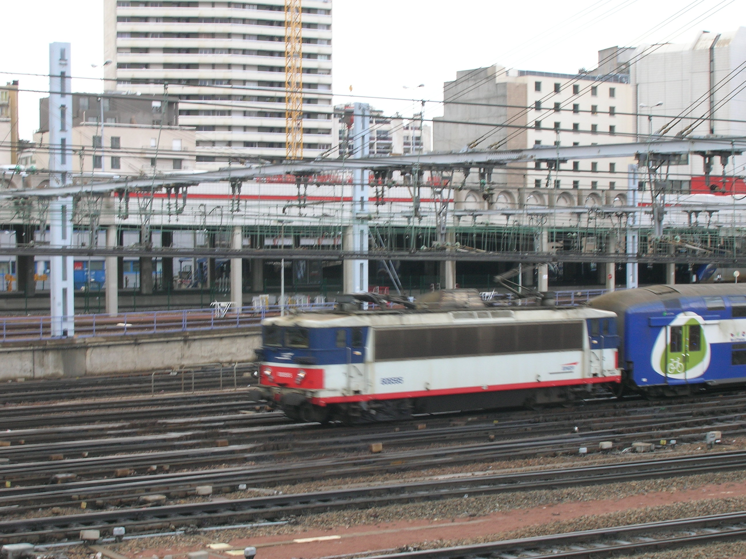 Author : Vincent BABILOTTE 24/03/2006 Gare Montparnasse